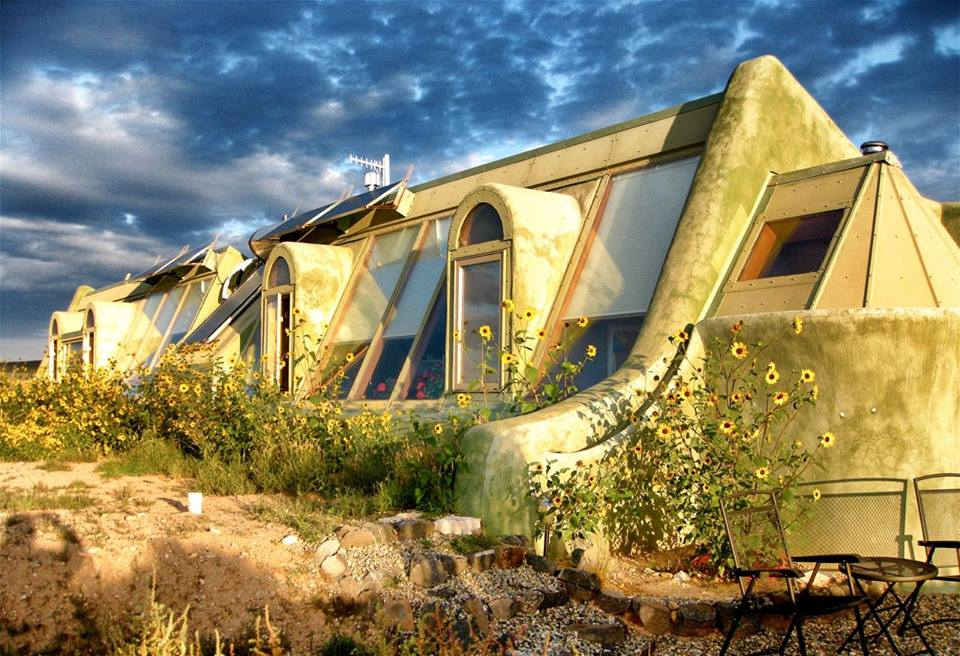 More Photos at: More Info About Earthships at: earthship #architecture #design #building #sustainable #greenliving #recycle #recycledmaterials